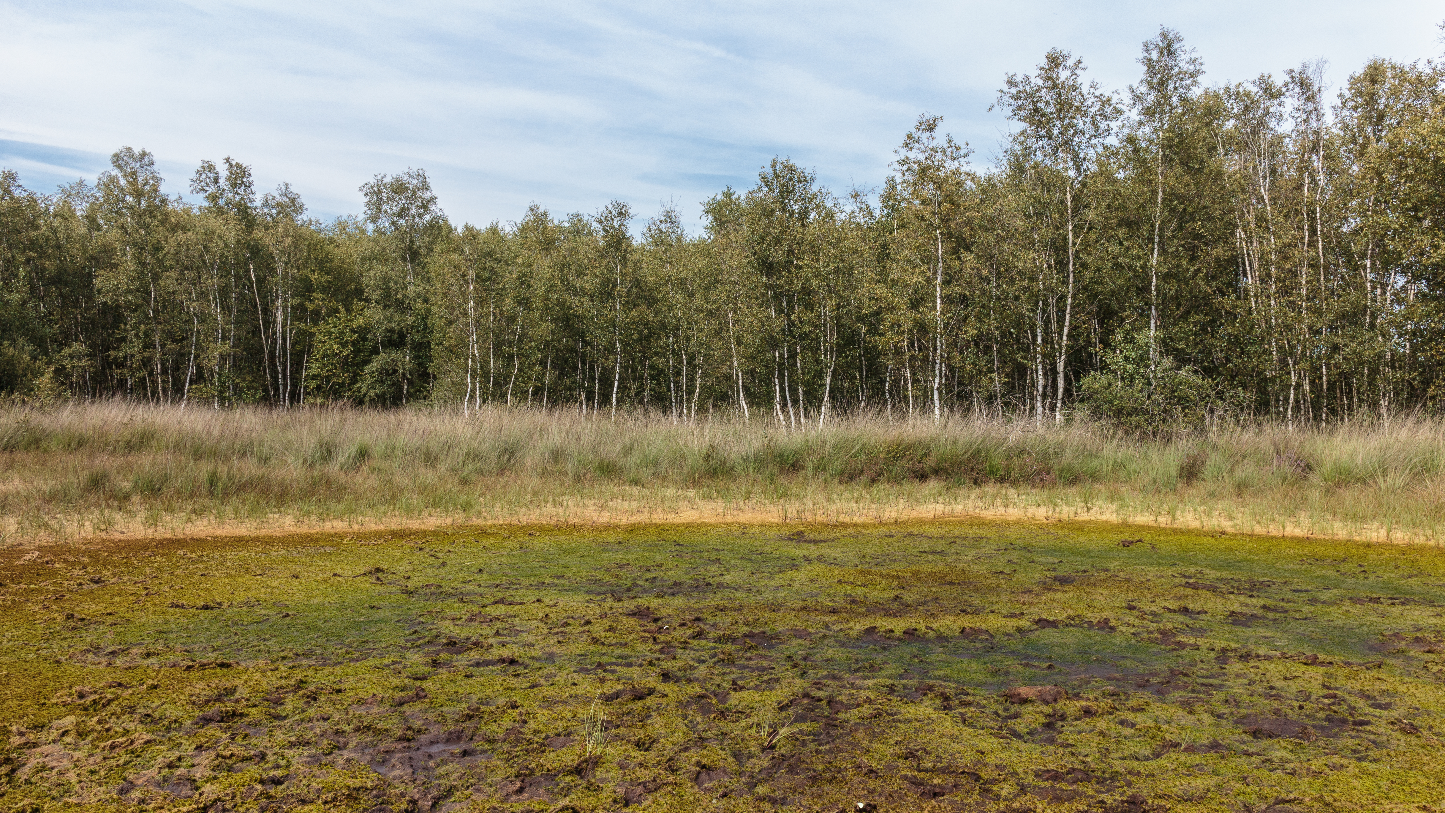 Bargerveen Meerstalblok. Beautifully recovering high moor biotope.